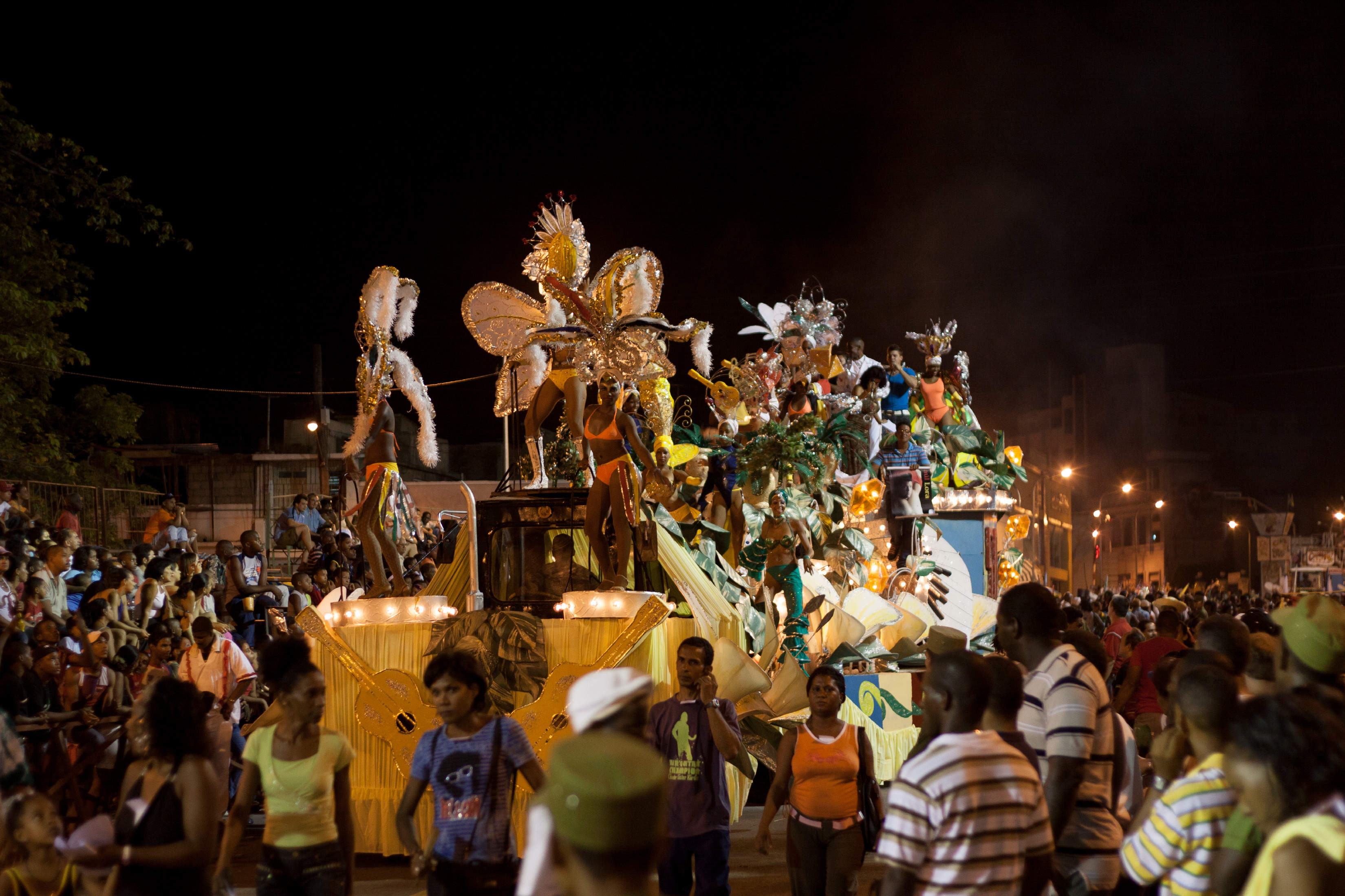 Carnival of Santiago de Cuba